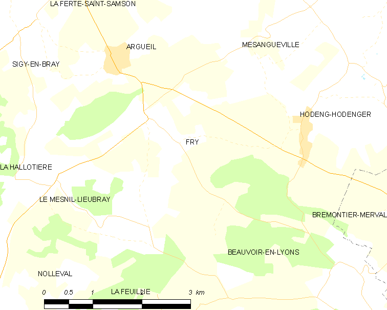 Map of French municipality Fry